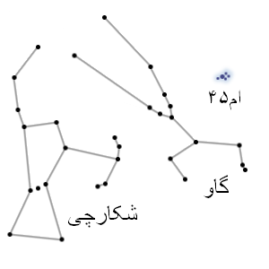 M45 positioning (in Persian)